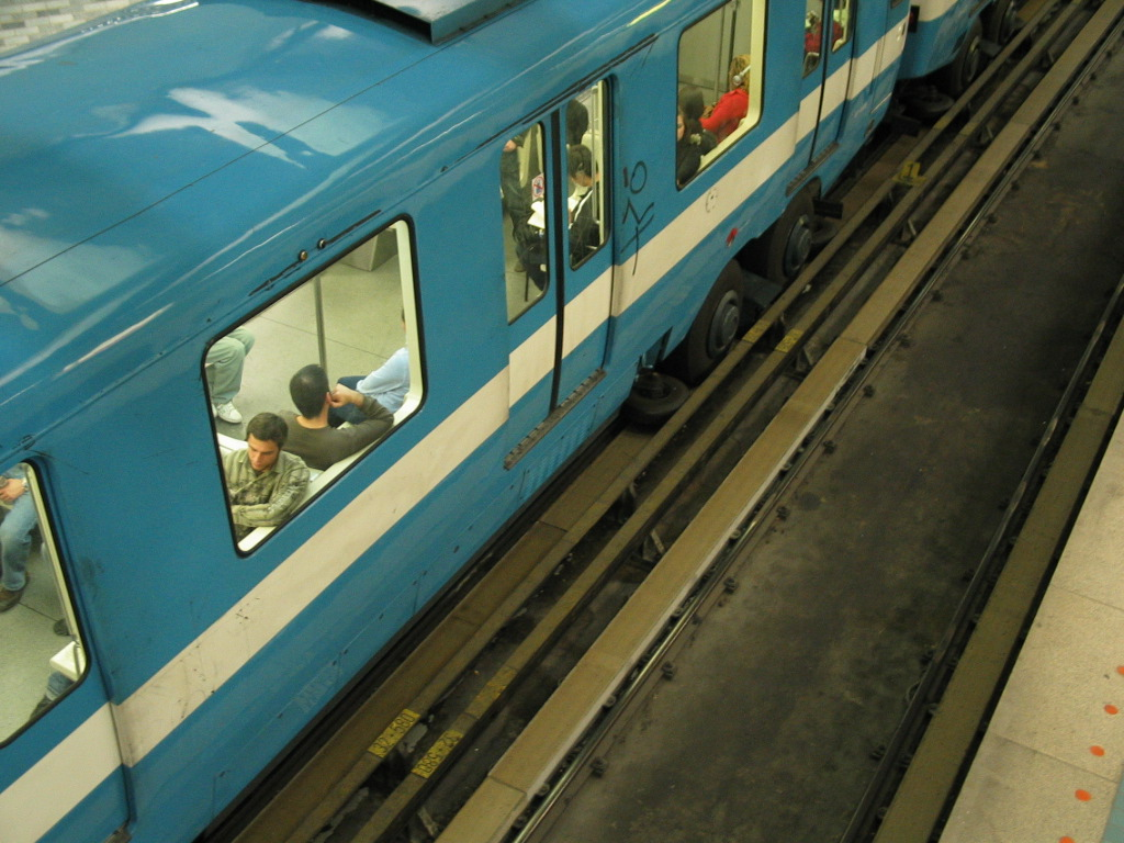 Montreal Metro train, as seen from the overpass at the station